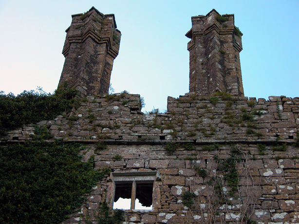 Douglas P.Bermingham